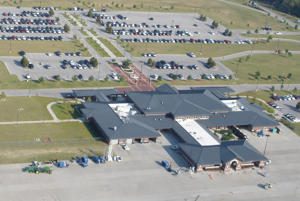 Aerial photo of Tyler Pounds Regional Airport in Tyler, Texas. This image was shot by Butler Planning Services for the Whitehouse Vision 2020 Comprehensive Plan Project (Whitehouse) on September 9, 2005.